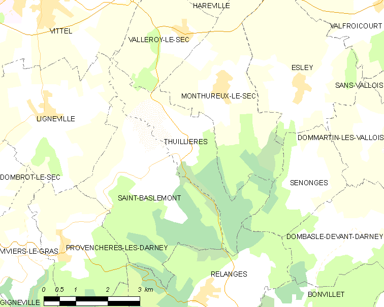 Map of French municipality Thuillières